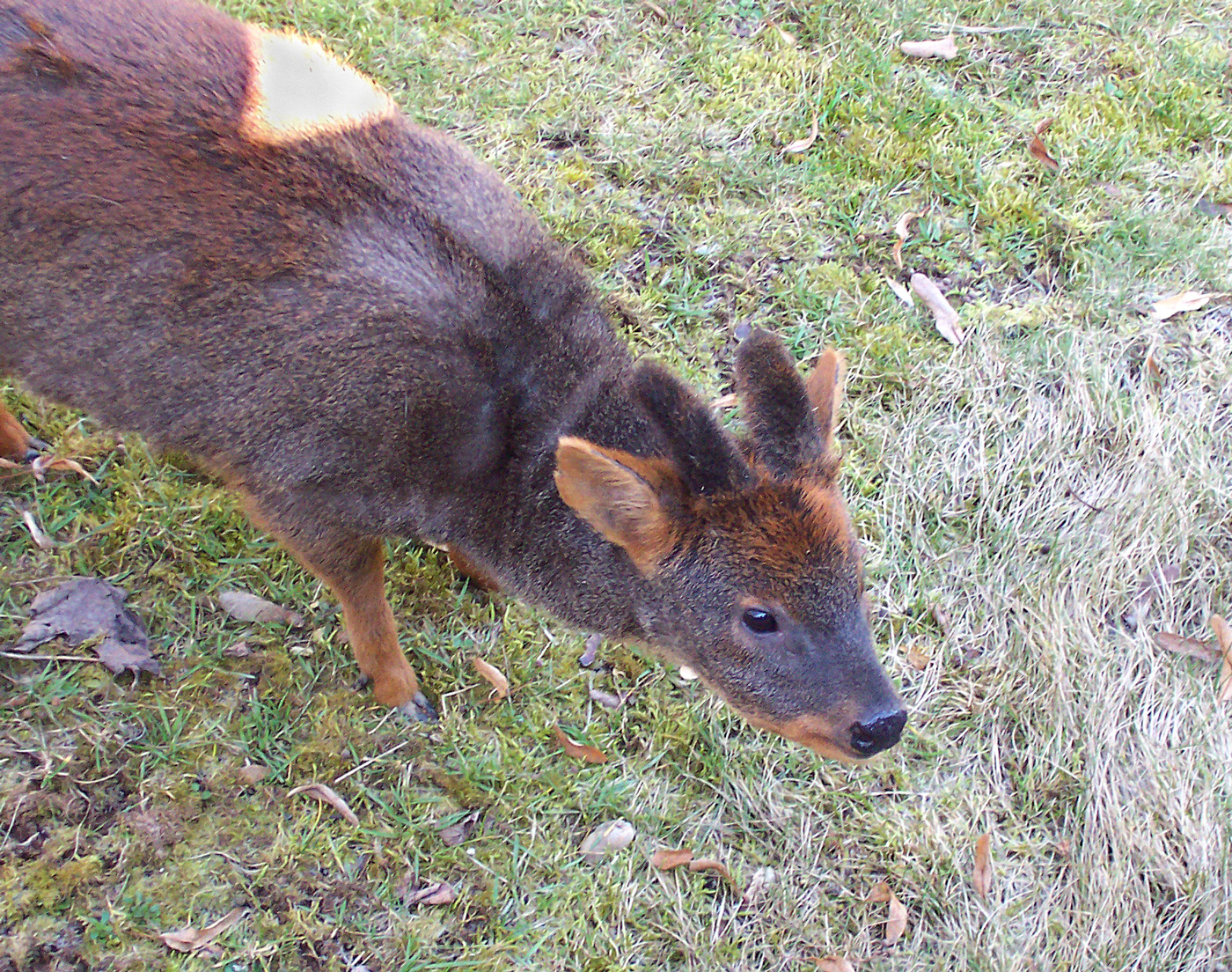 Southern pudu (Pudu pudu or Pudu puda) at Prague Zoo